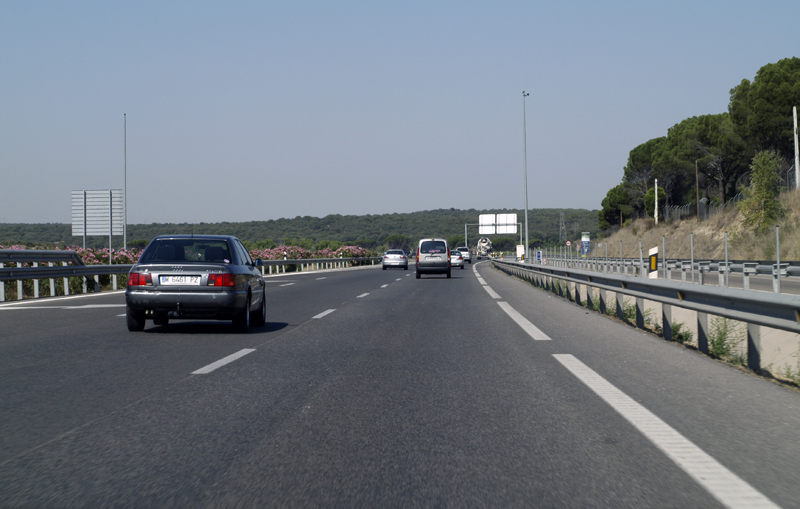 The M-501 motorway heading west towards Brunete